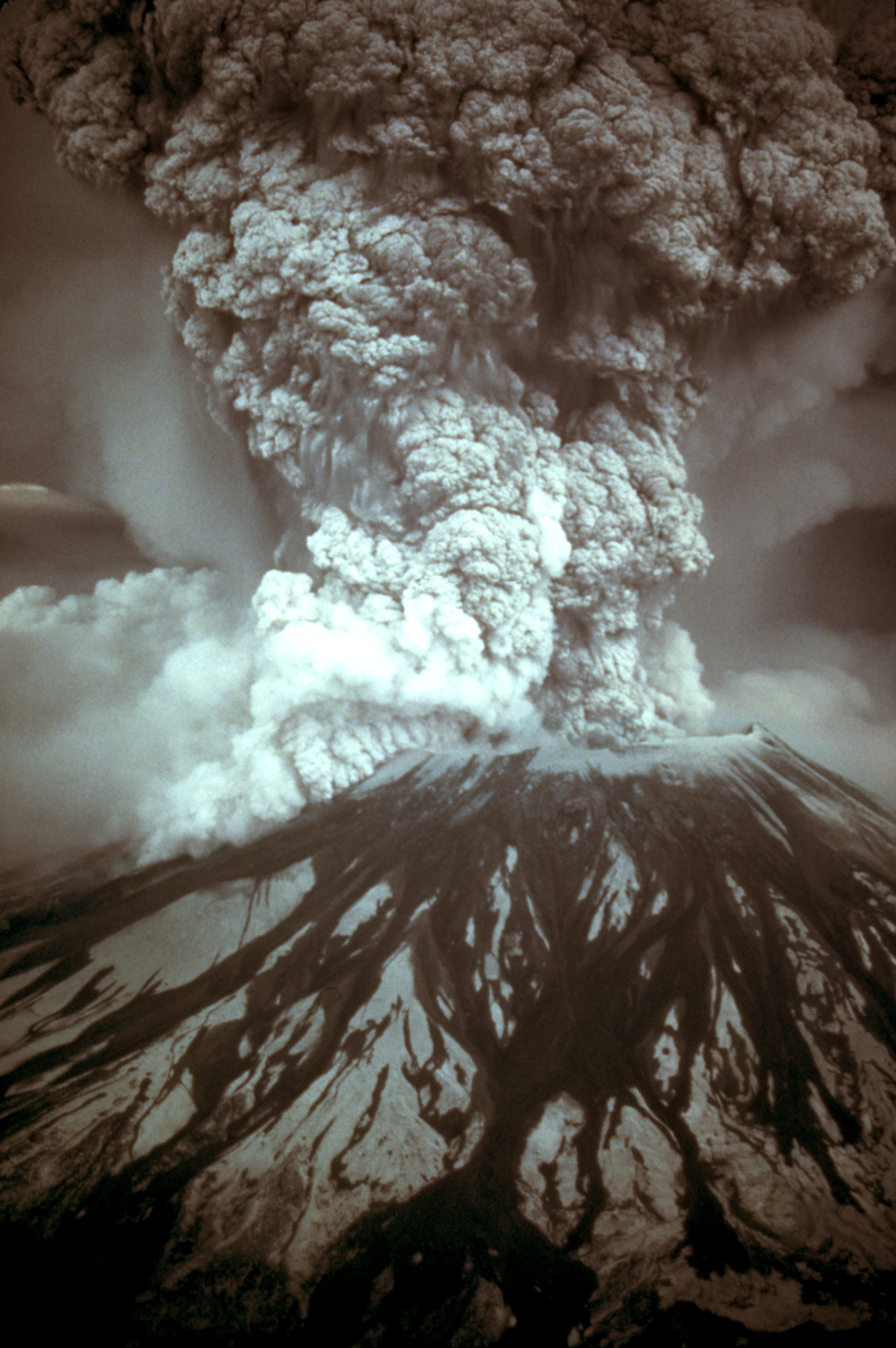 On May 18, 1980, at 8:32 a.m. Pacific Daylight Time, a magnitude 5.1 earthquake shook Mount St. Helens. The bulge and surrounding area slid away in a gigantic rockslide and debris avalanche, releasing pressure, and triggering a major pumice and ash eruption of the volcano. Thirteen-hundred feet (400 meters) of the peak collapsed or blew outwards. As a result, 24 square miles (62 square kilometers) of valley was filled by a debris avalanche, 250 square miles (650 square kilometers) of recreation, timber, and private lands were damaged by a lateral blast, and an estimated 200 million cubic yards (150 million cubic meters) of material was deposited directly by lahars (volcanic mudflows) into the river channels. Fifty-seven people were killed or are still missing. USGS Photograph taken on May 18, 1980, by Austin Post.